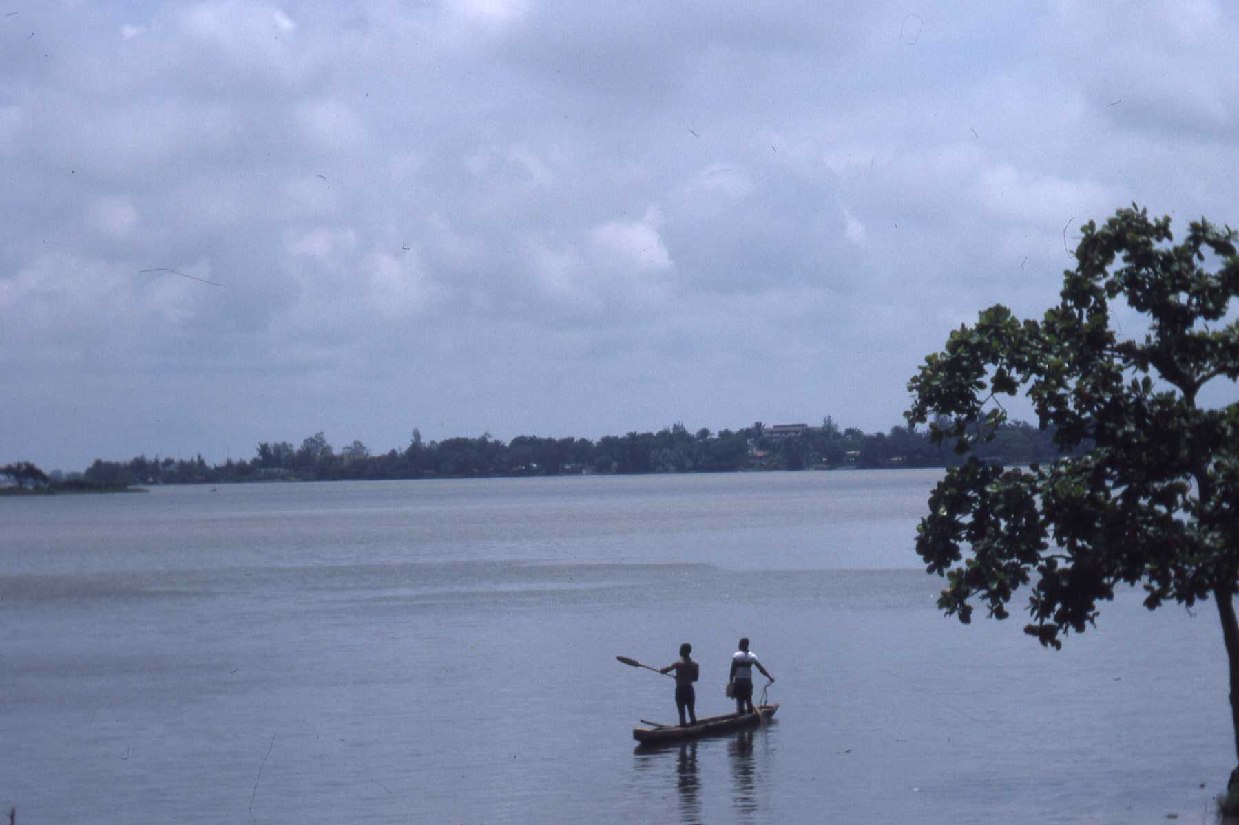 Ébrié Lagoon, with Pirogue boaters, in Abidjan, Côte d'Ivoire.